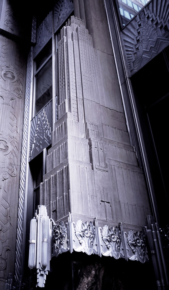 Author: John Kahrs